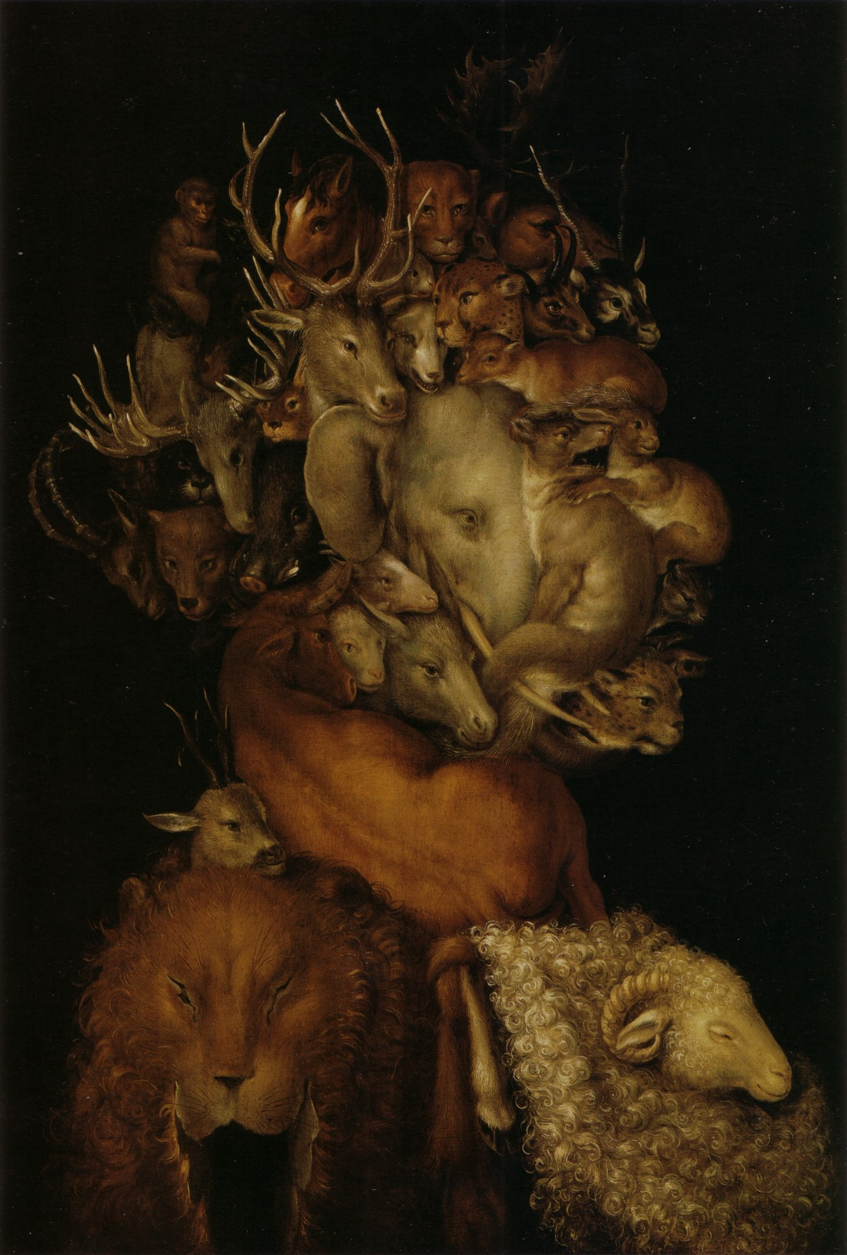 The Earth